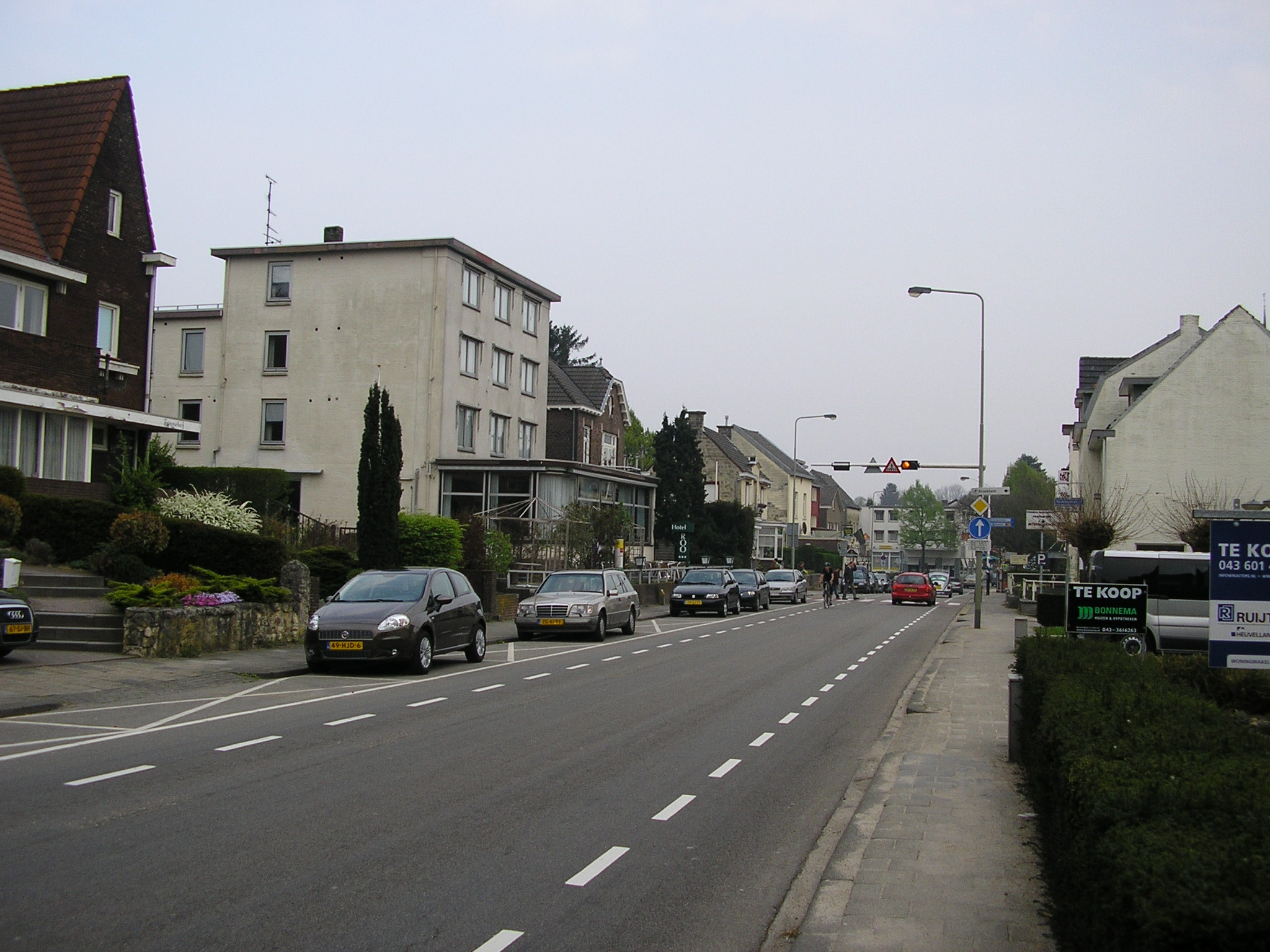 Valkenburg aan de Geul, Netherlands. View of Broekhem, both the name of a road and neighbourhood with mainly hotels and villas.